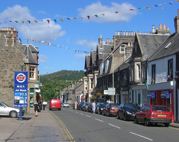 Comrie. Drummond Street, carrying the A85 through this small Perthshire town, situated on the Highland Boundary Fault.